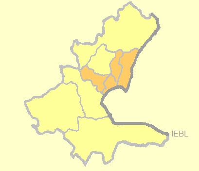 Location of Stari Grad, Centar, Novi Grad and Novo Sarajevo municipalities in Sarajevo Canton